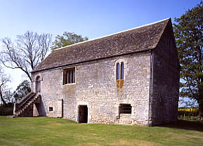 Chamber block, Boothby Pagnell Manor.